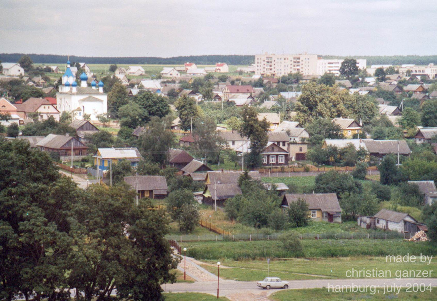 Description: Mir, small town in Belarus, seen from the tower of Mir castle. Left hand in the backgraound: The Holy Trinity Church (Svjato-Trojtskaya tserkov) Source: Own work Author: Christian Ganzer, Hamburg, Germany Date: 07/16/2004